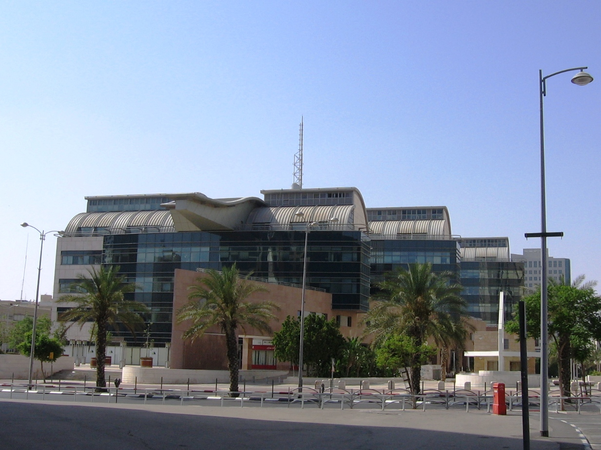 Kiryat-ha-Memshala Mall, Beer Sheva, Israel